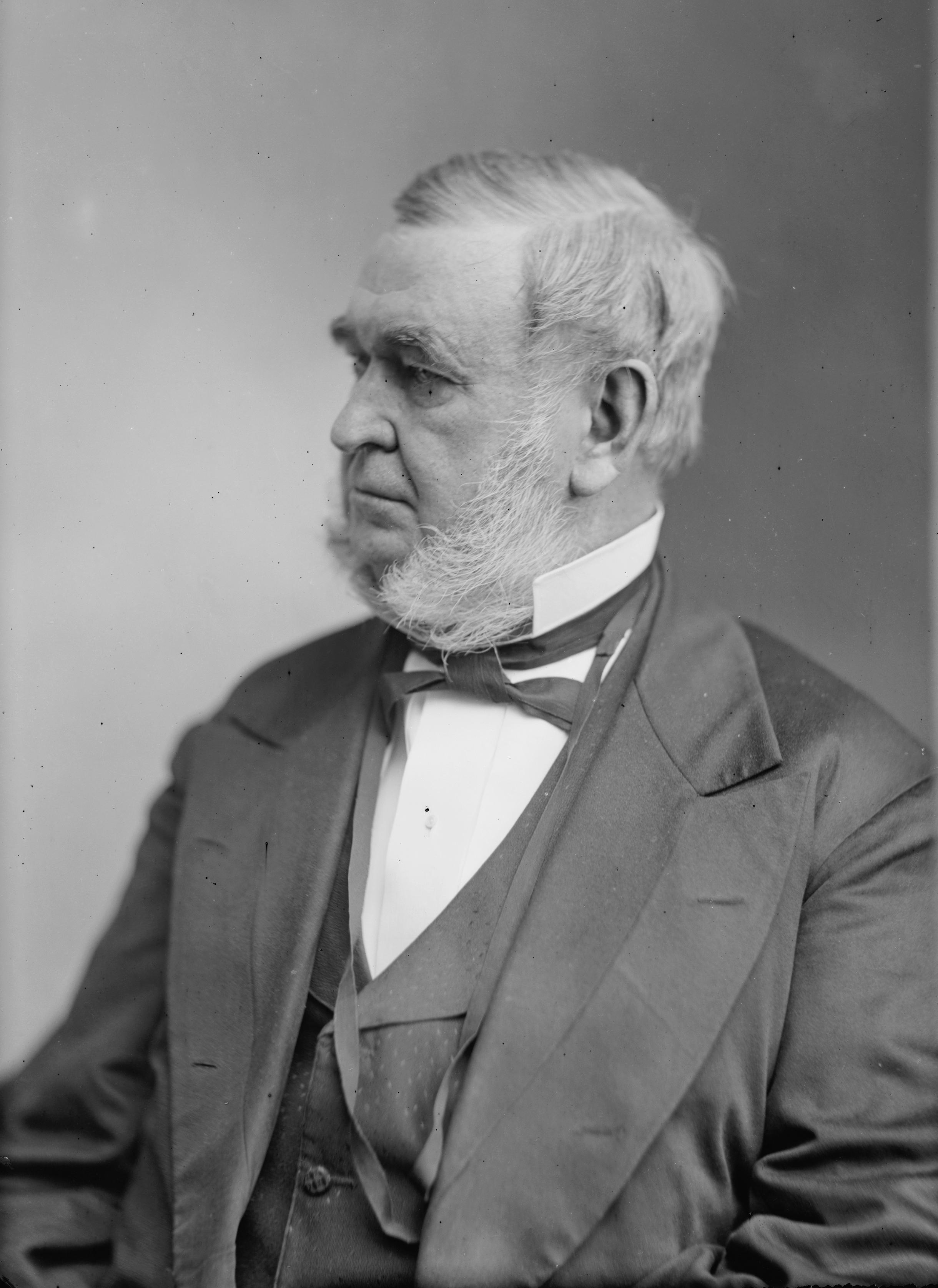 John Allison (Representative). Library of Congress description: "Allison, John Treasury Dept."